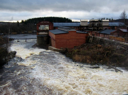 Läskelä paper mill in Karelia, Russia